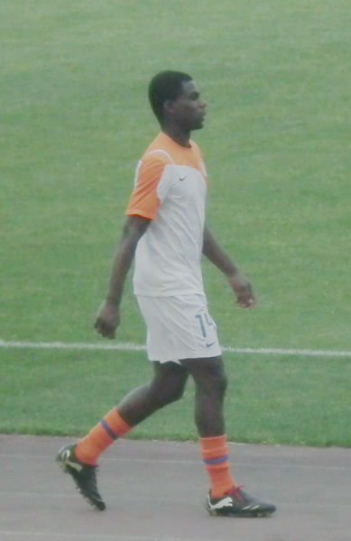 Shandong Luneng player Fred Benson